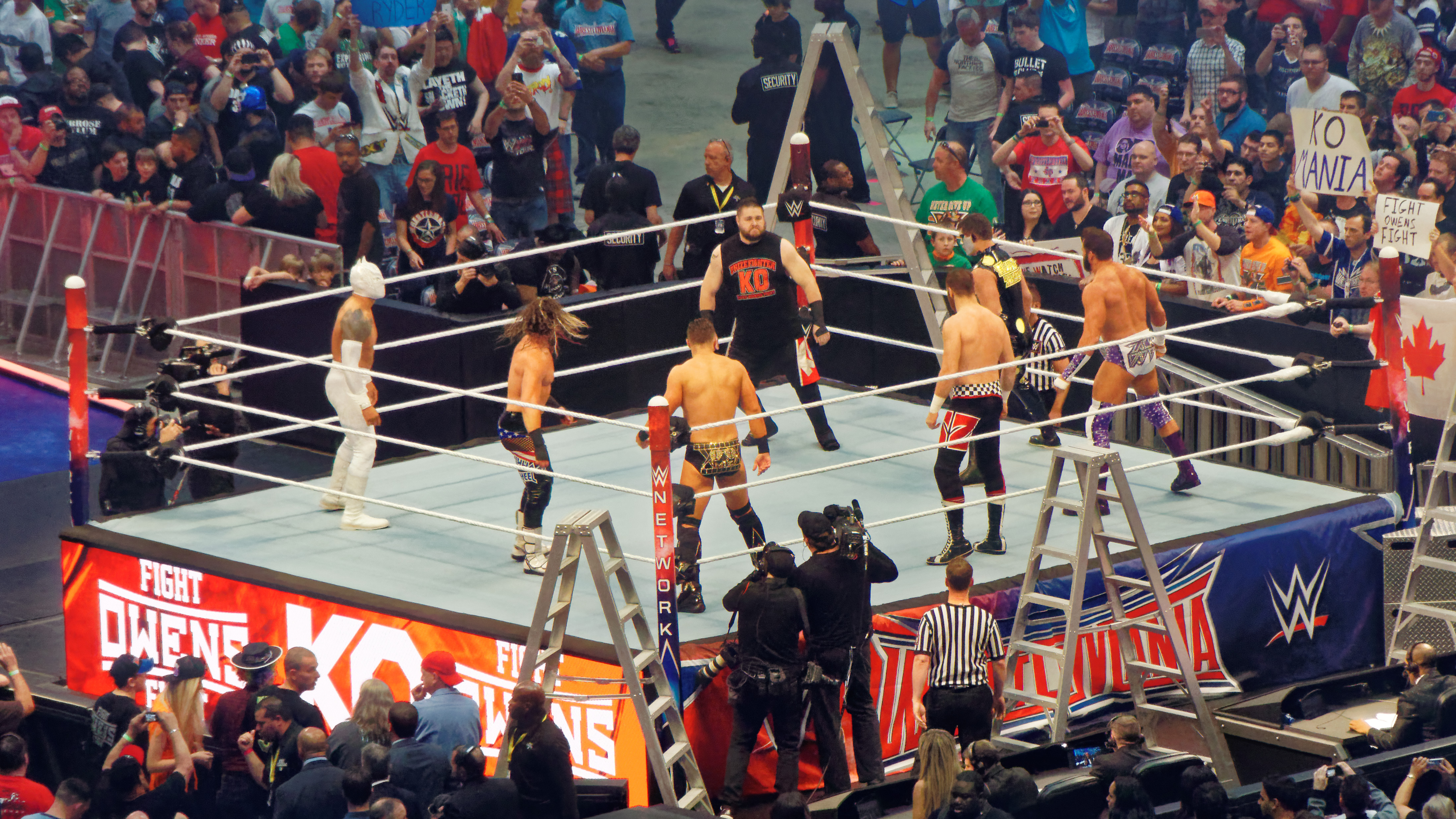 WrestleMania 32 was the thirty-second annual WrestleMania professional wrestling pay-per-view (PPV) event produced by WWE. It took place on April 3, 2016, at AT&T Stadium in Arlington, Texas. Twelve matches were contested on the card (with three matches occurring on the WrestleMania Kickoff pre-show - two airing live on the USA Network, which televised the second hour of the pre-show). Zack Ryder def. Dolph Ziggler, Kevin Owens (c), Sami Zayn, Sin Cara, Stardust, The Miz (in 15:24) Type of match : Ladder (7-way) For : WWE Intercontinental Championship(title change) Rating : ****